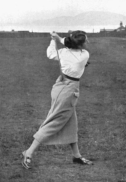 English amateur golfer Cecil Leitch (1891-1977). Photo taken circa 1913.